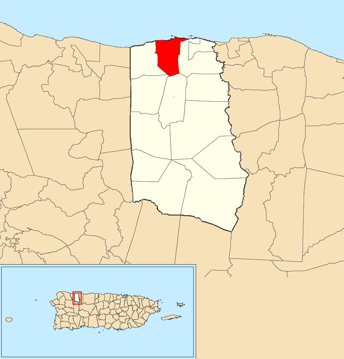 Membrillo, Camuy, Puerto Rico locator map